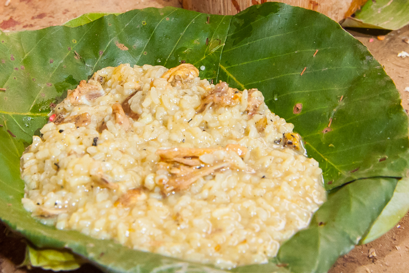 Wachipa on a tapara.